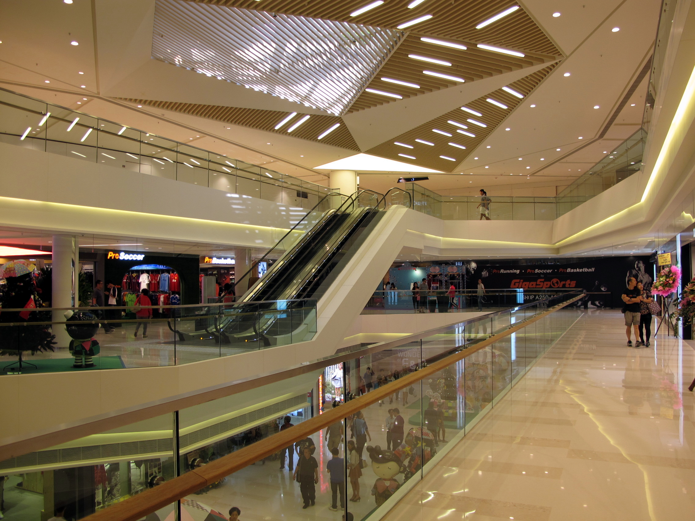 Yoho SYLC Atrium 新元朗中心商場